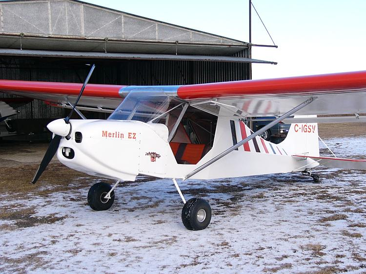 I took this photo of a Blue Yonder Merlin EZ (C-IGSV) at Indus on November 19, 2004